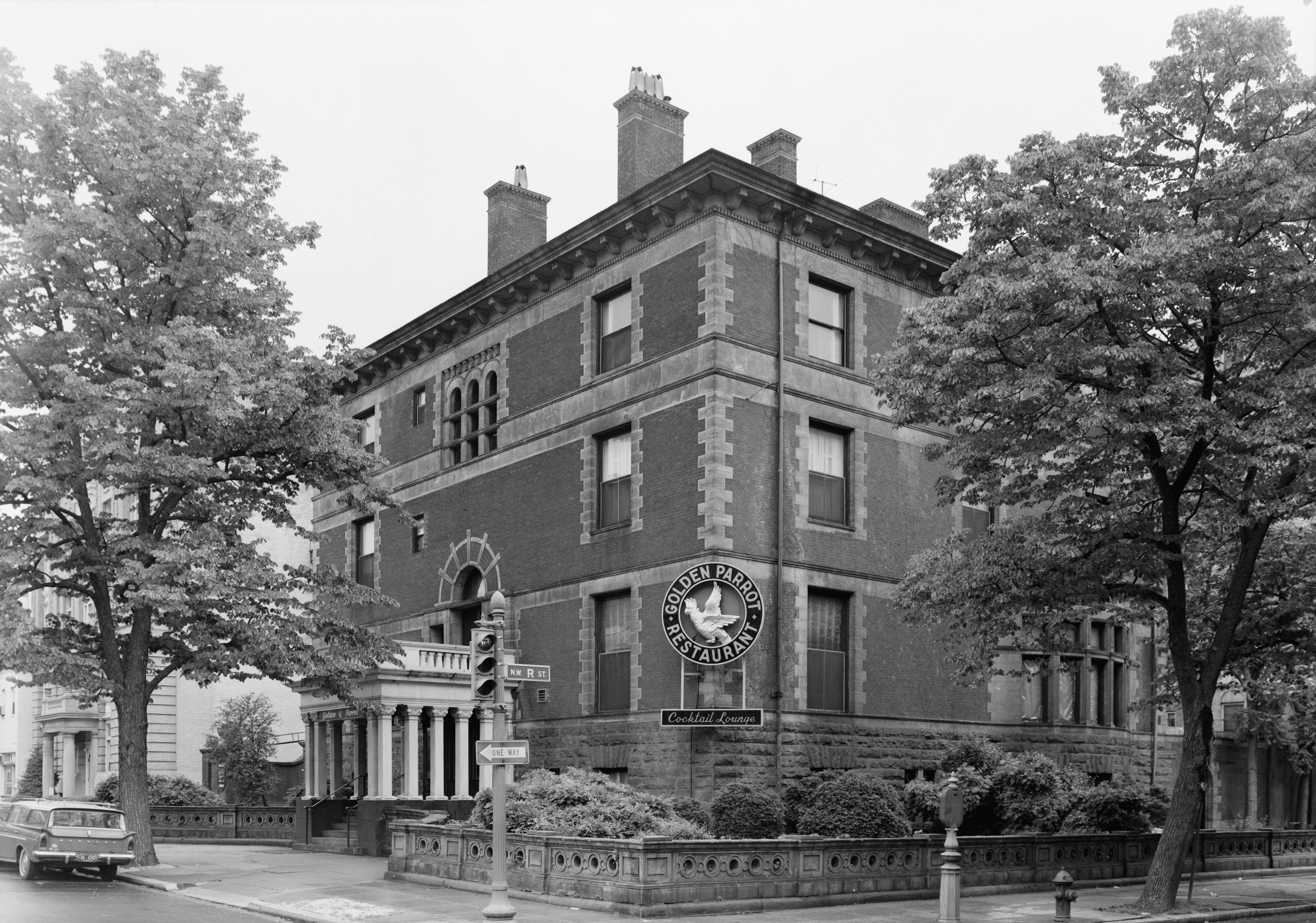 Fraser Mansion at 20th and R Streets NW in Washington, DC. At the time this photo was taken, the building served as the home of the Golden Parrot Restaurant. The building's most recent use was as the Founding Church of Scientology from 1995-2009.